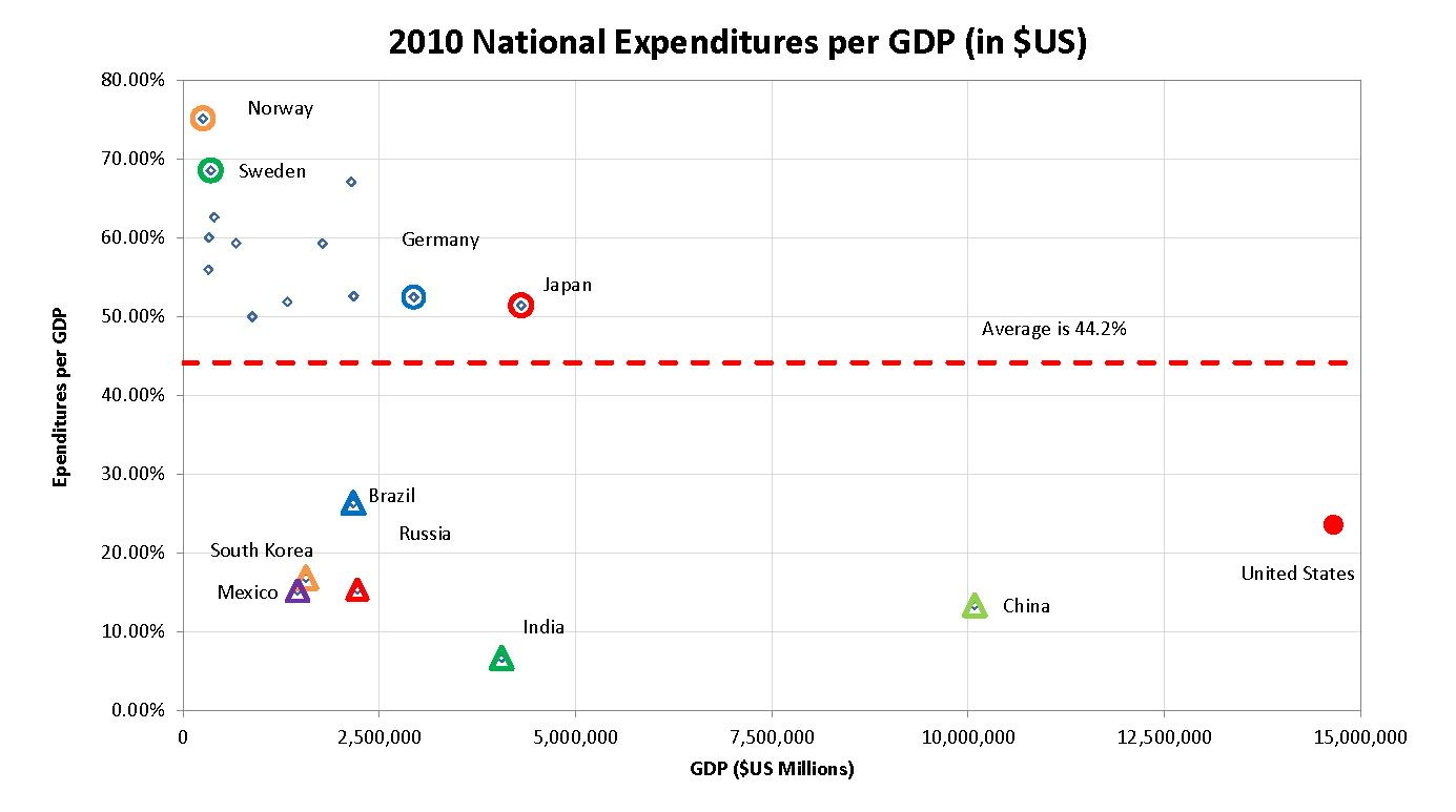 Comparison of National Spending per GDP for 20 largest economies, 2010